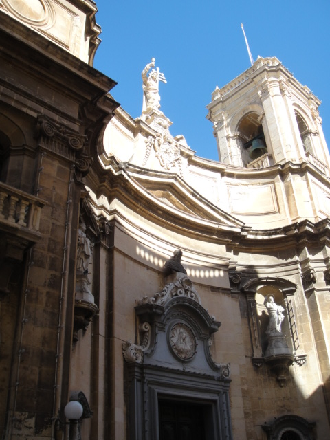 Basilica of St Dominic Valletta Malta.